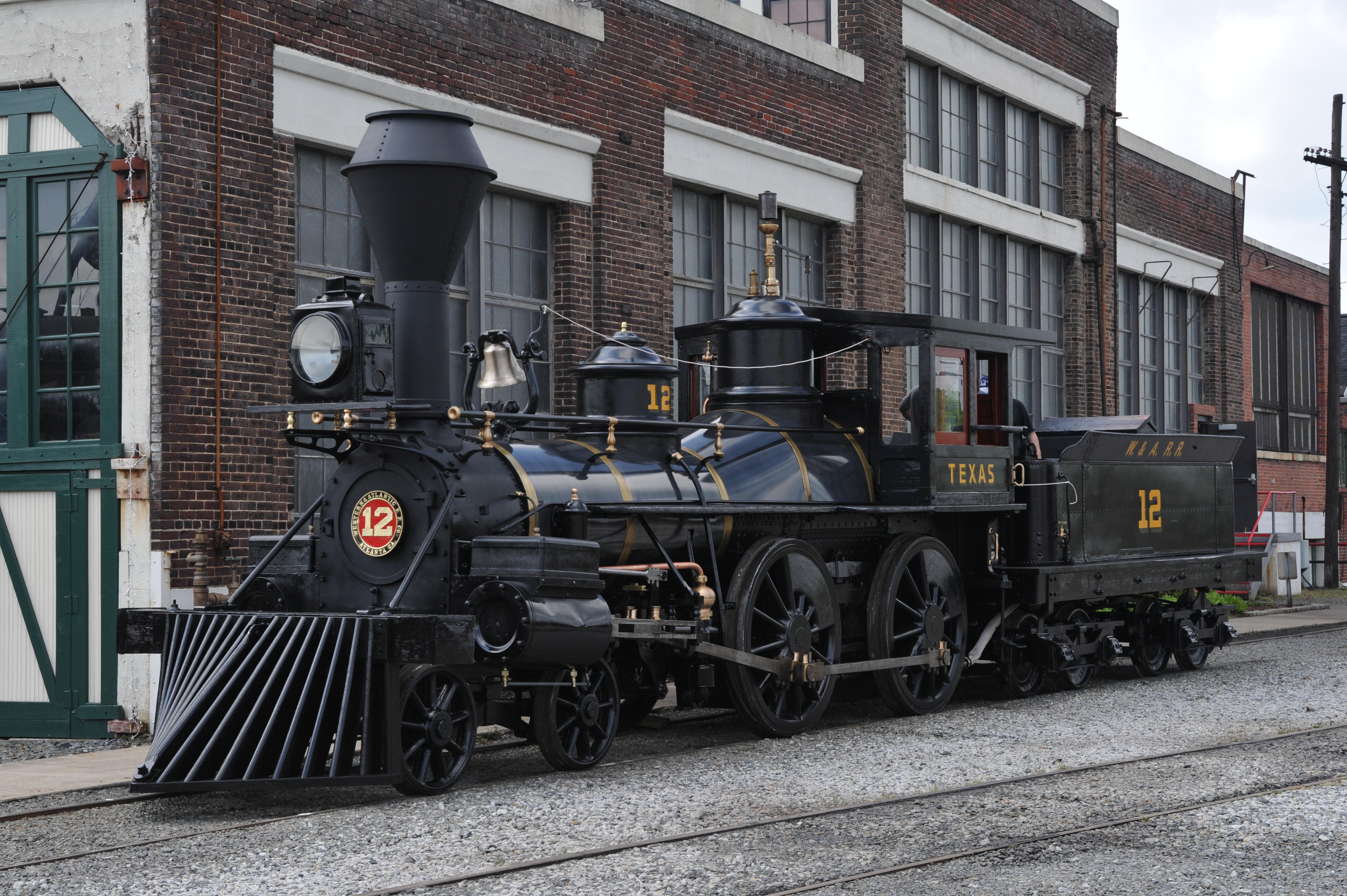 April 28, 2017 presentation of the Texas during 100 Years of Steam Event